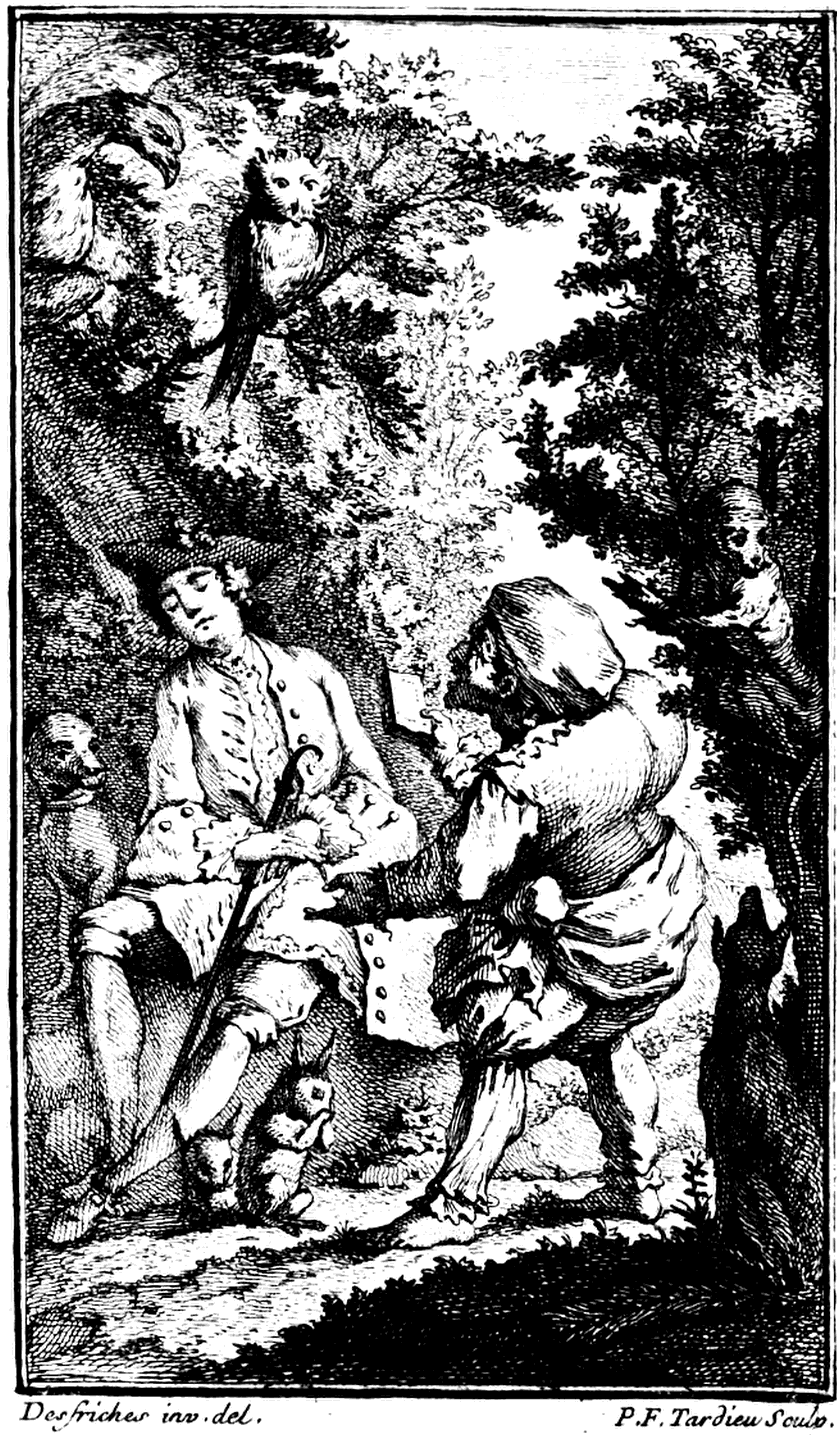 Aesop and the beasts inspire the poet, an illustration from Pierre De Frasnay’s Mythologie ou recueil des fables grecques, esopiques et sybaritiques (Orléans, 1750)